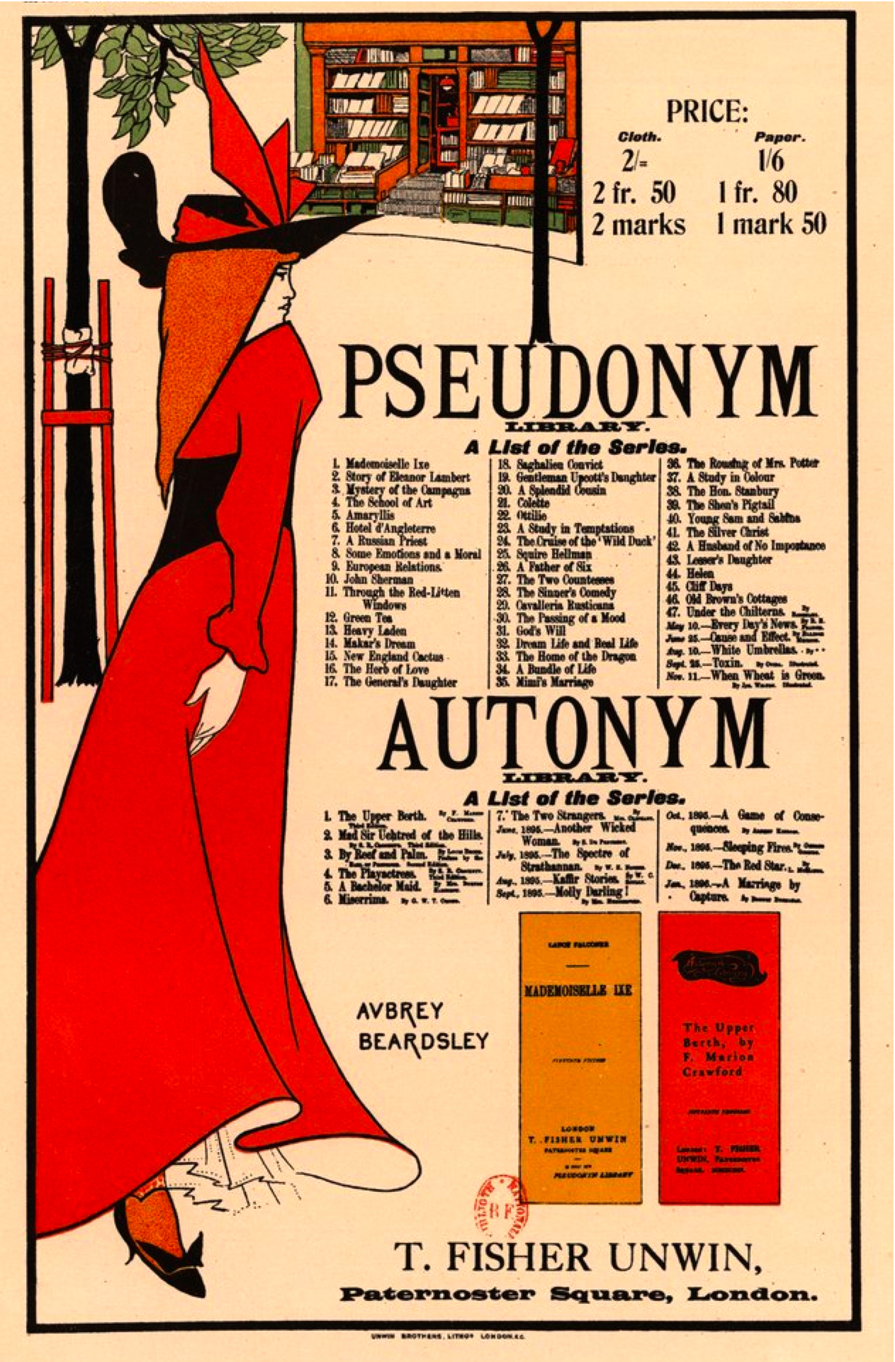 Lithographic fac simile of a poster designed by Aubrey Beardsley : Pseudonym Library - Autonym Library - T. Fischer Unwin (London).